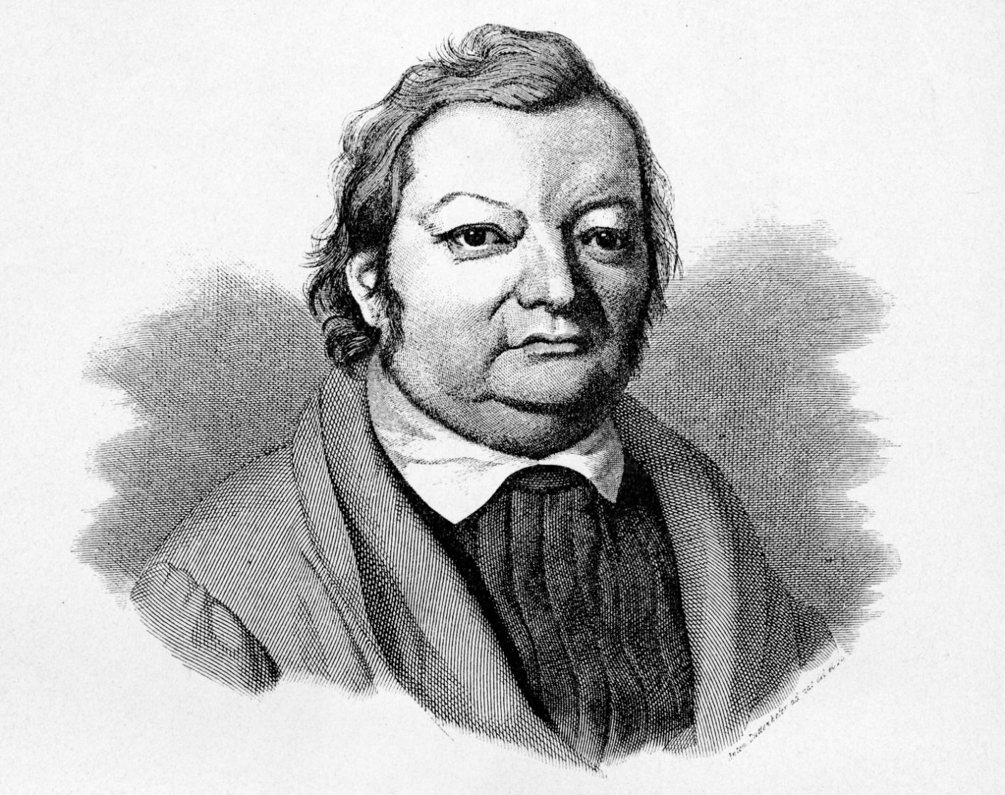 Justinus Kerner. Engraving after a drawing of Anton Duttenhofer